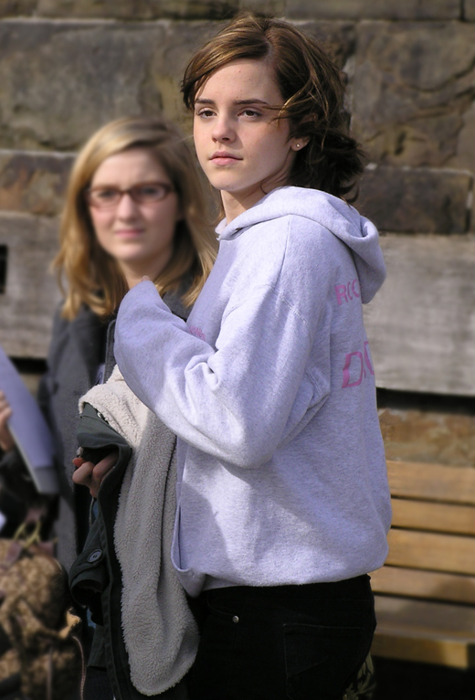 Actress Emma Watson by Ben Salter.